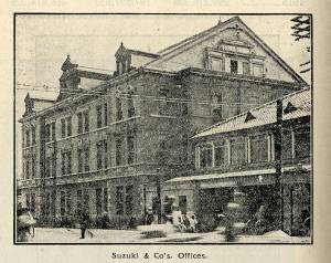 鈴木商店本社（1918年以前）(Suzuki & Co. Kobe Main Office former 1918) 英和日本商工人名録（1918年刊）神戸大学付属図書館蔵 The Japan mercantile and manufacturers' directory : with which is incorporated the Osaka & Kobe manufacturers' directory and buyers' guide, Kobe, Japan : Far Eastern Advertising Agency,1918,Kobe University Library